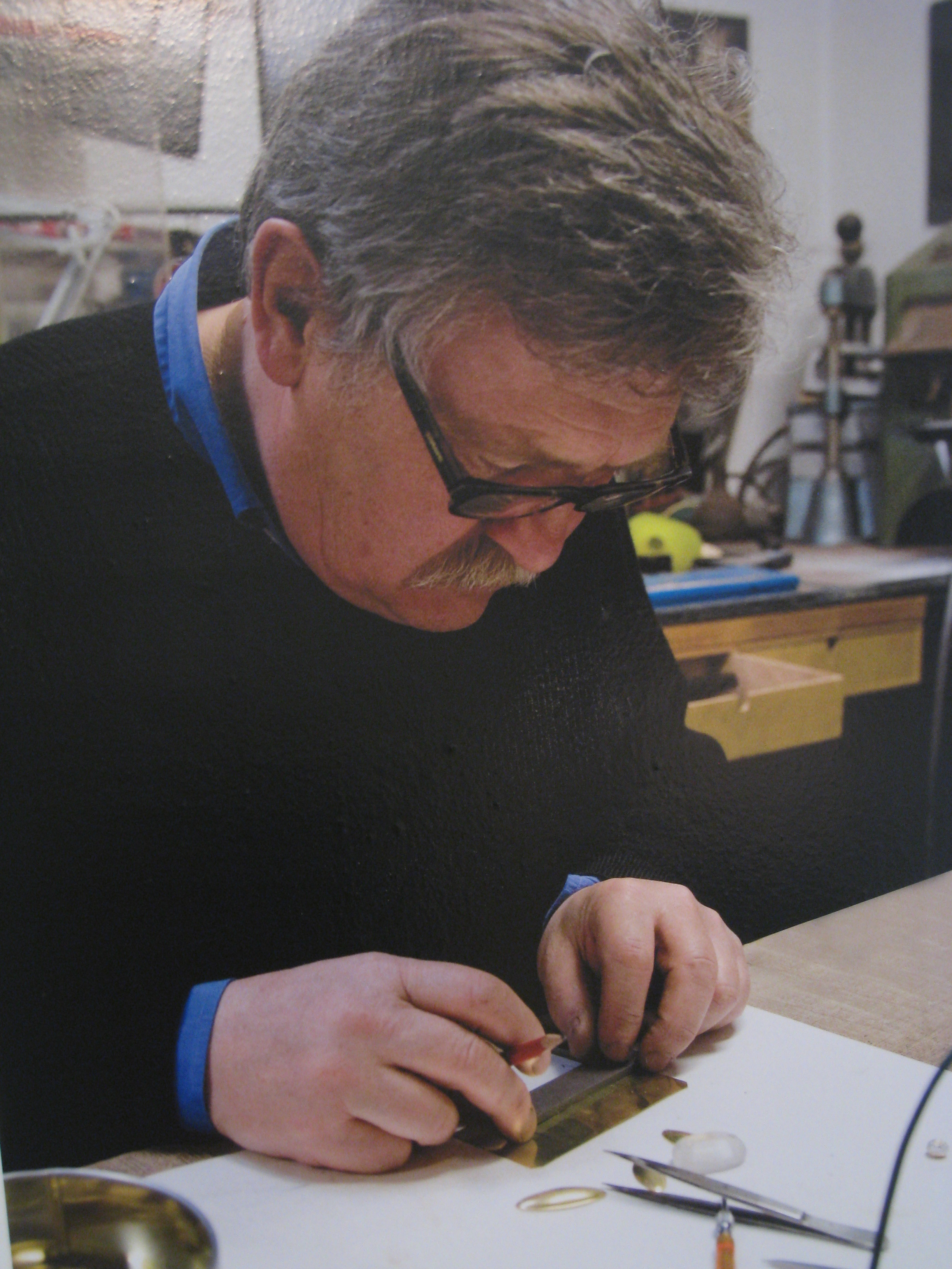 Siegfried De Buck, 2009